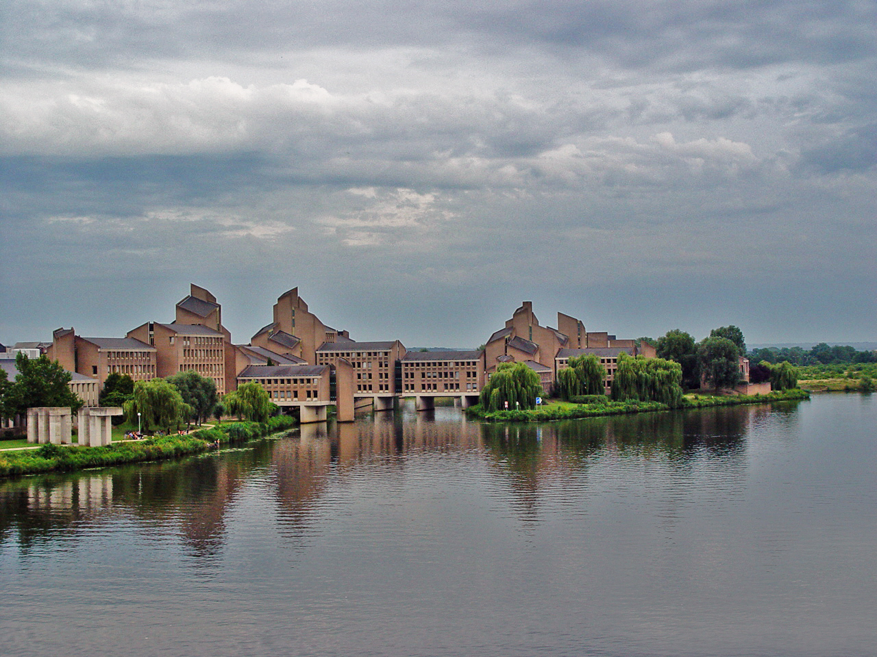 Provincial Government Buildings on the Meuse are depicted above, where the Maastricht Treaty (formally, the Treaty on European Union, TEU) was signed on 7 February 1992.